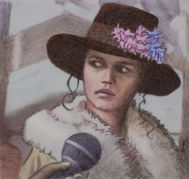 The sketch gives a short, approximative impression of the costume of the Jeanne charactere in the film "Ultimo tango a Parigi" (1972).